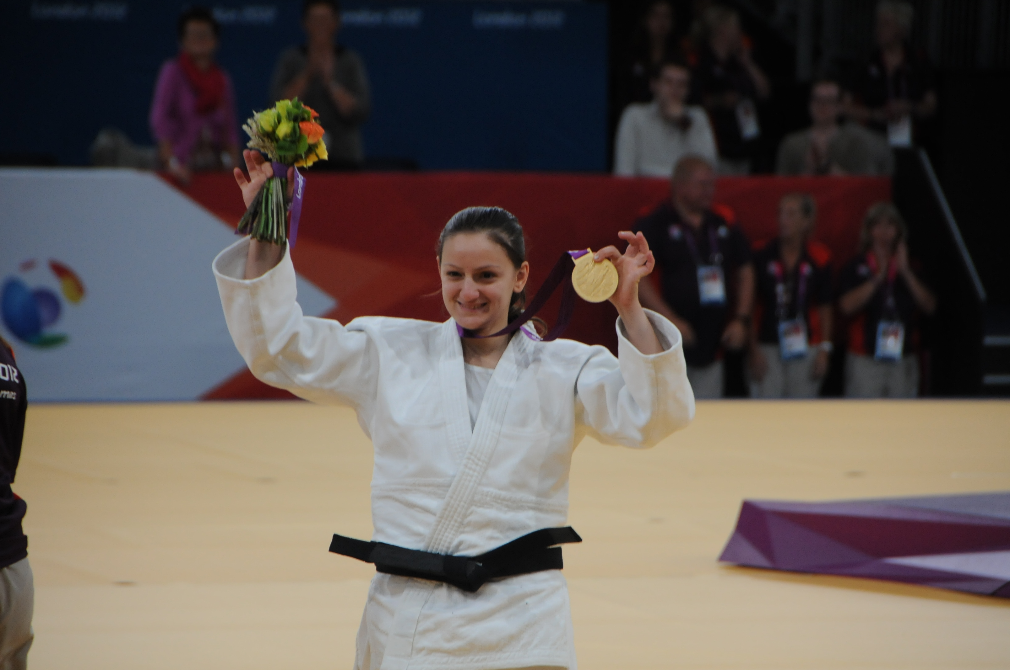 Afag Sultanova at the 2012 Summer Paralympics